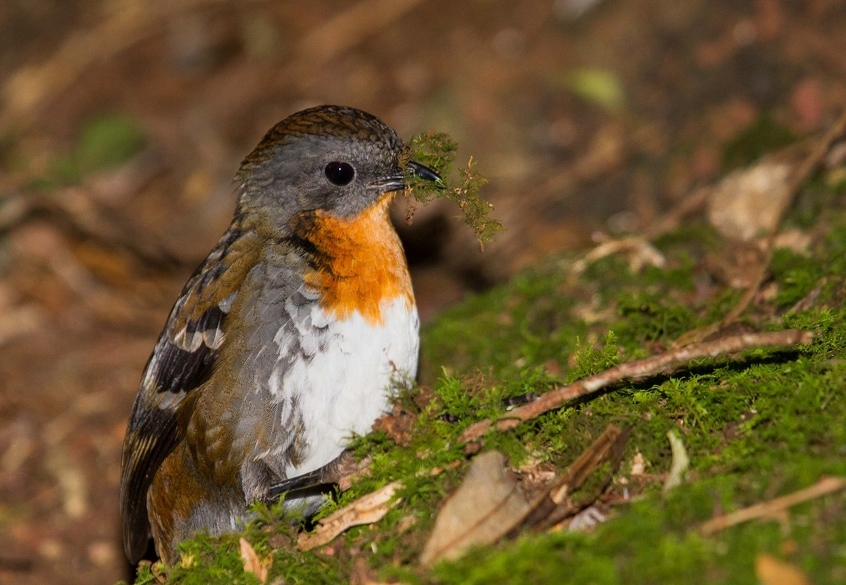 Image of a female Australian Logrunner